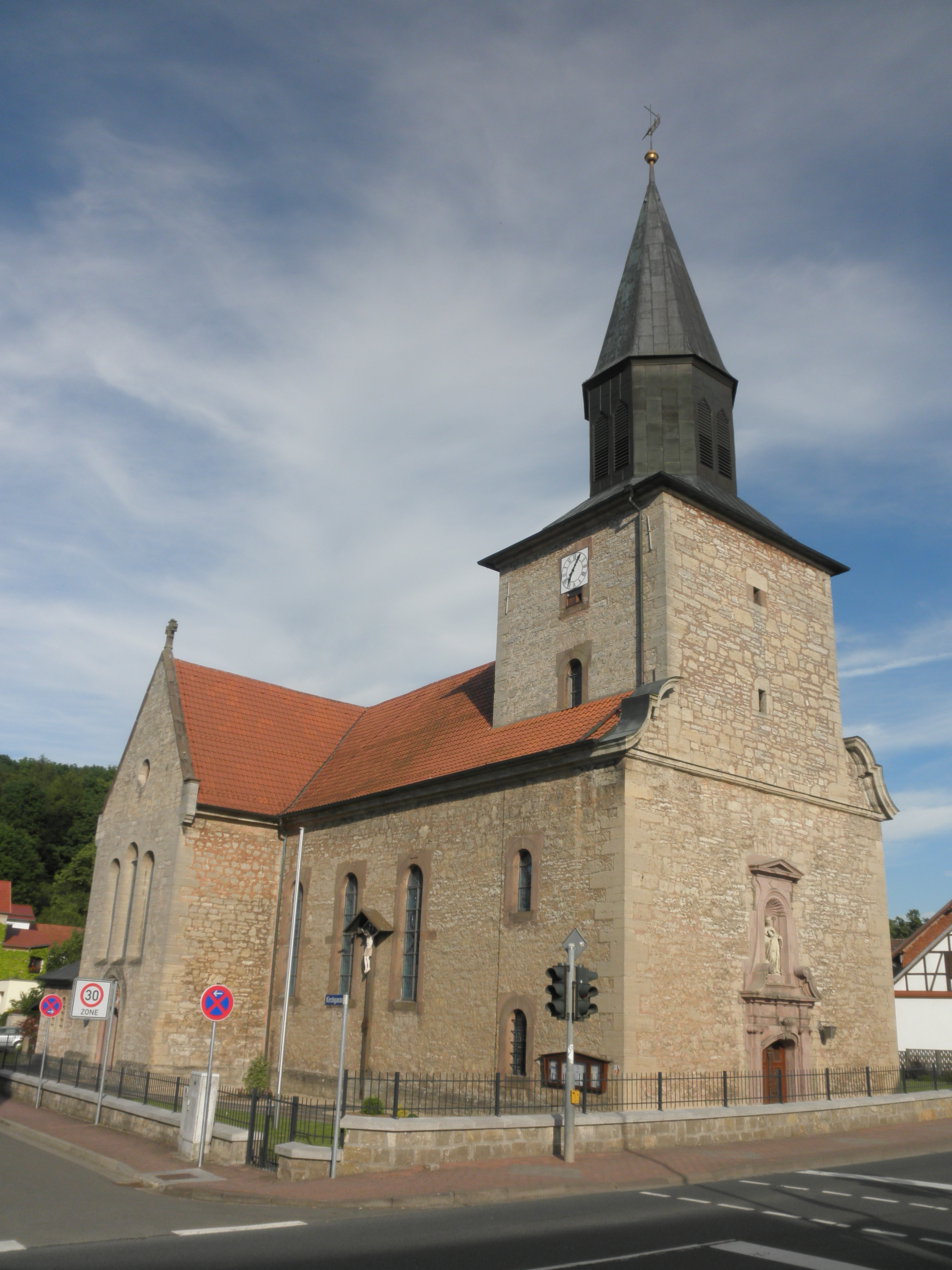 Church in Kallmerode (Eichsfeld, Thuringia)